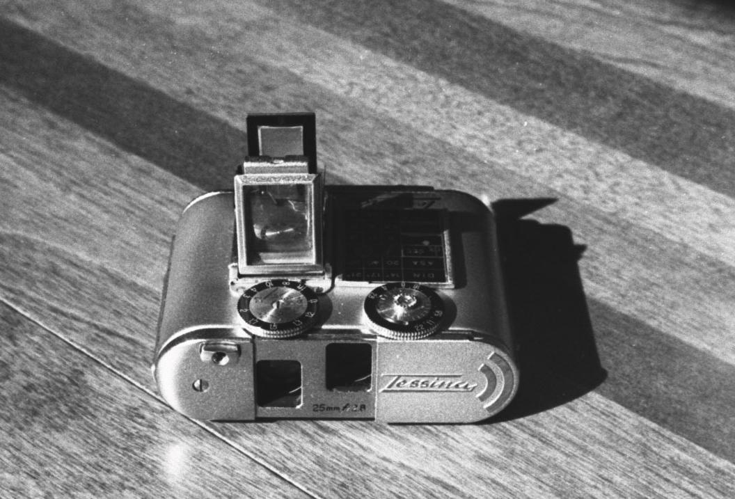 Tessina twin lens reflex 35mm camera